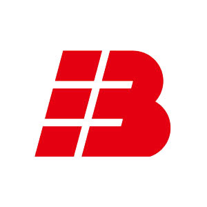 Logo of Guangzhou No.3 Bus.